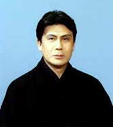 Teruaki Fujima, Member of Japan Art Academy, received the Person of Cultural Merit on November, 2012.